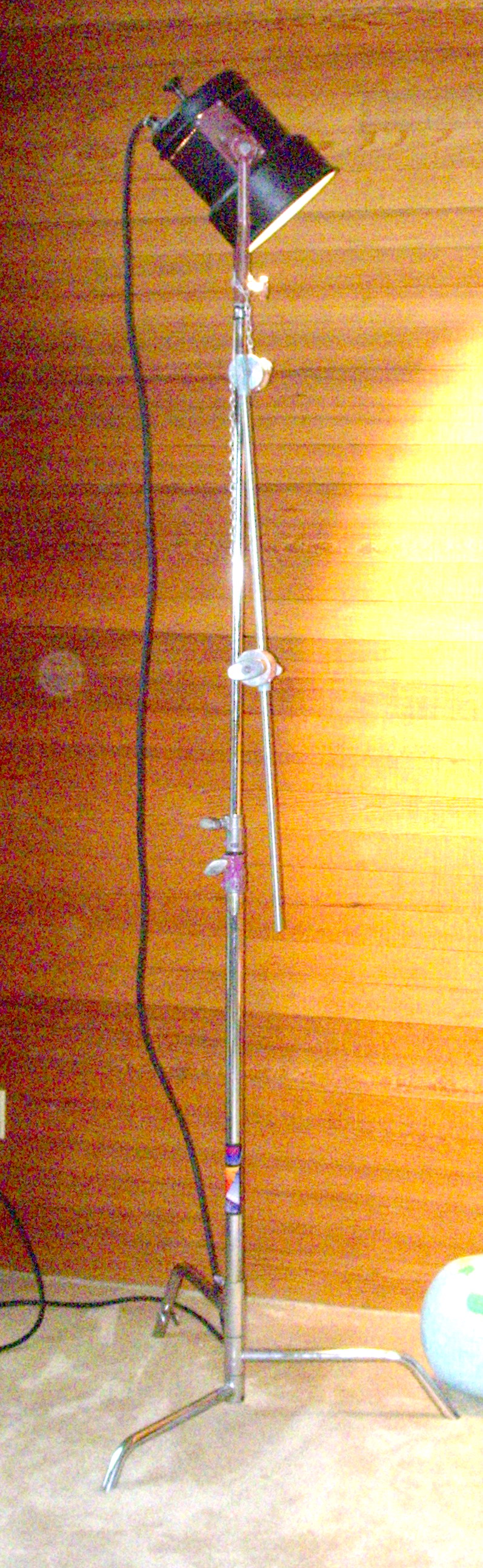 C-Stand, Gobo (lighting) arm and 2000 watt Mighty-Mole filmmaking set light